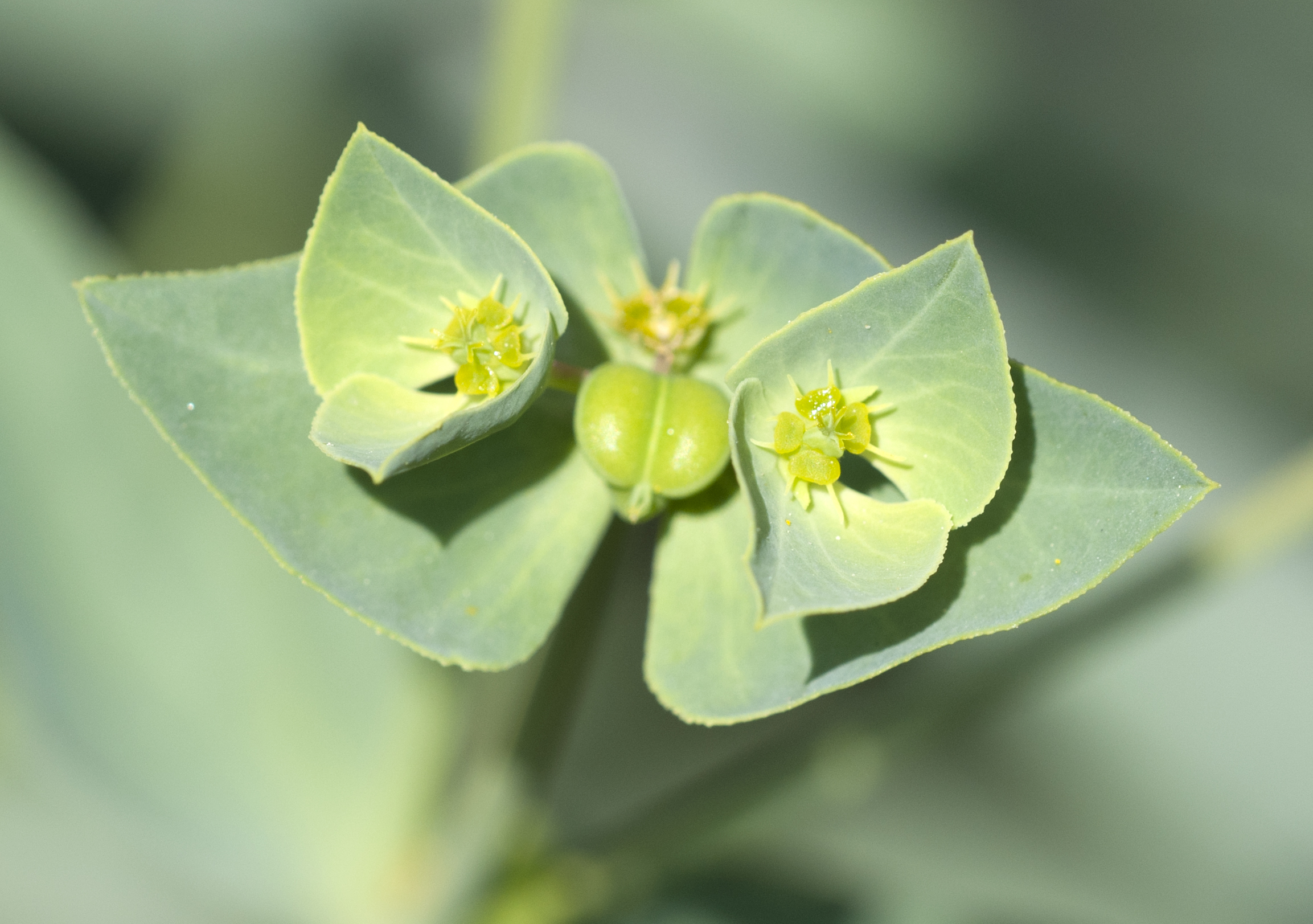 Flowers of Sea spurge (Euphorbia paralias) at Akyatan Sand dunes, Karataş - Adana, Türkiye.